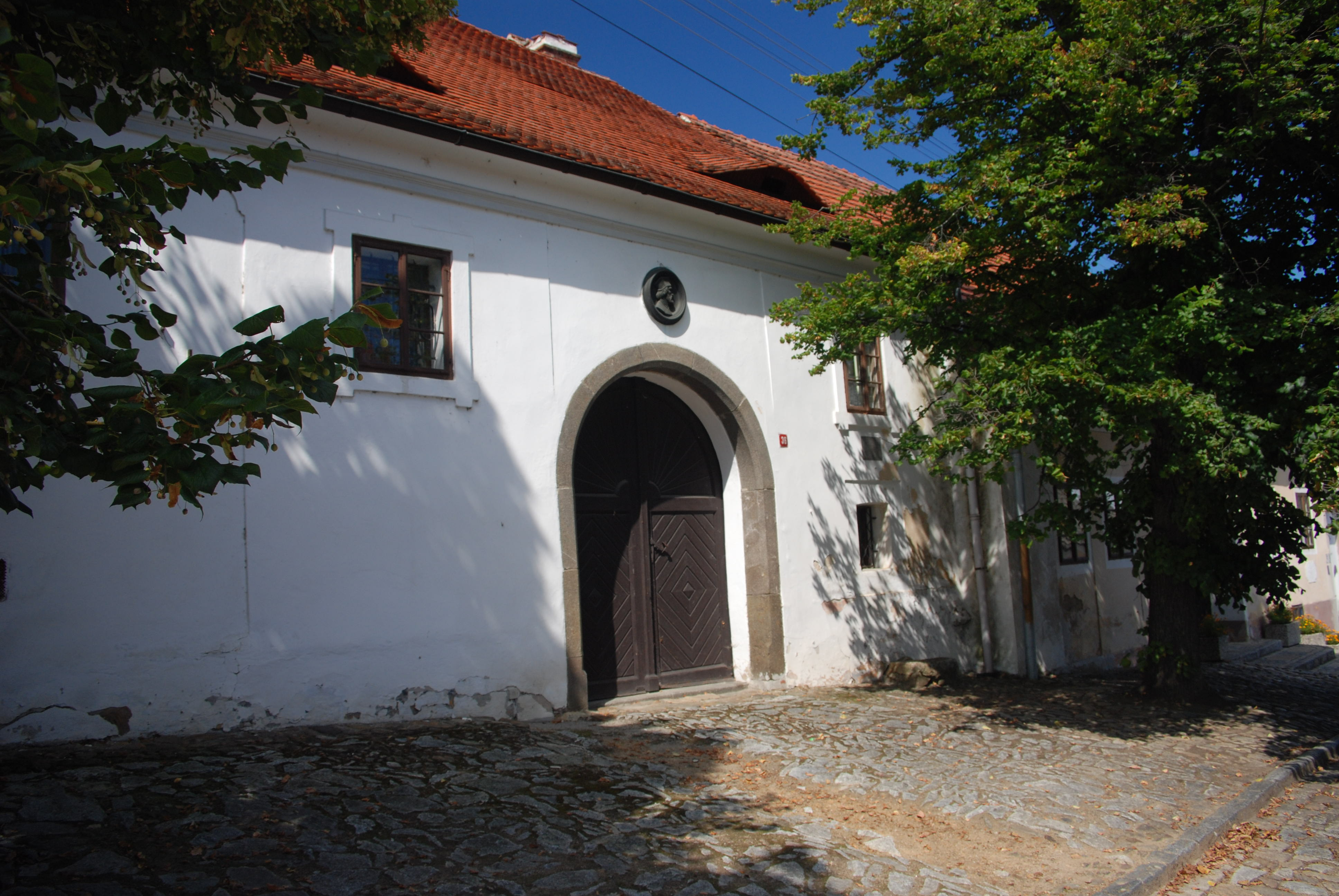 Birthplace of Master Jan Hus in Husinec, Czech Republic